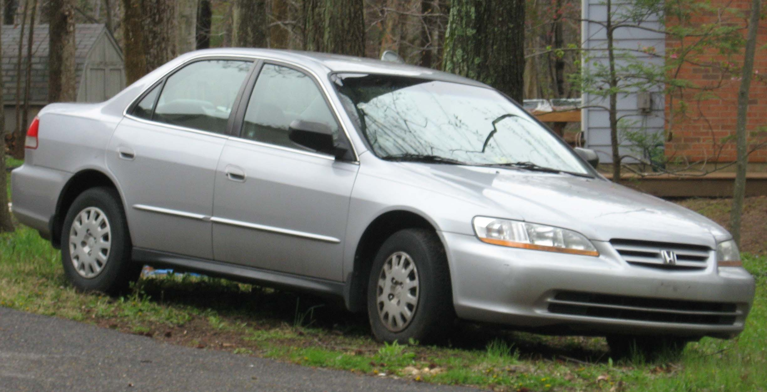 2001-2002 Honda Accord photographed in USA.